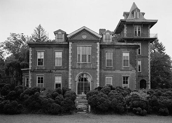 Cedarcroft, Bayard Drive (East Marlborough Township), Kennett Square vicinity (Chester County, Pennsylvania) (cropped). It was once the home of American writer Bayard Taylor.